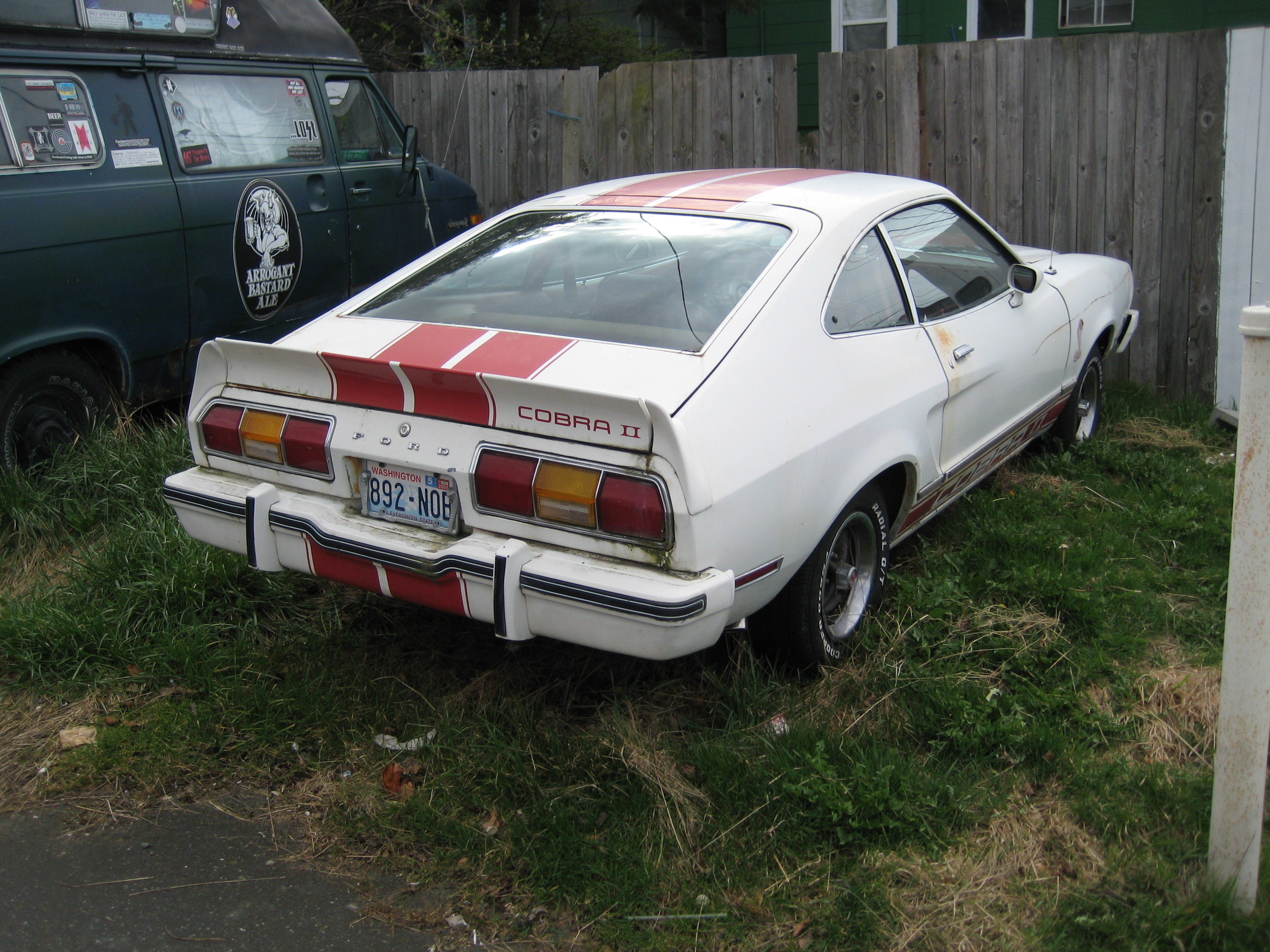 Spotted while on a walk in Anacortes, Washington.